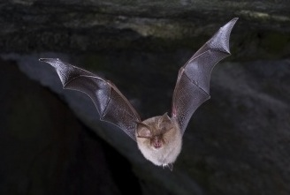 Lesser Horseshoe Bat (Rhinolophus hipposideros) cropped from original